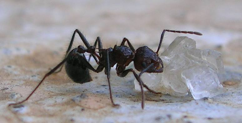 Myrmicaria brunnea Ant January 2006 Bangalore. India Photograph by L. Shyamal